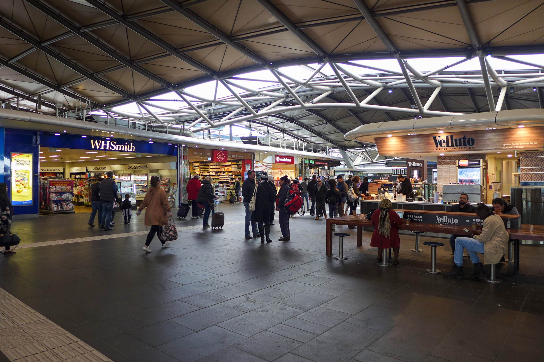 Shops in Southern Cross railway station